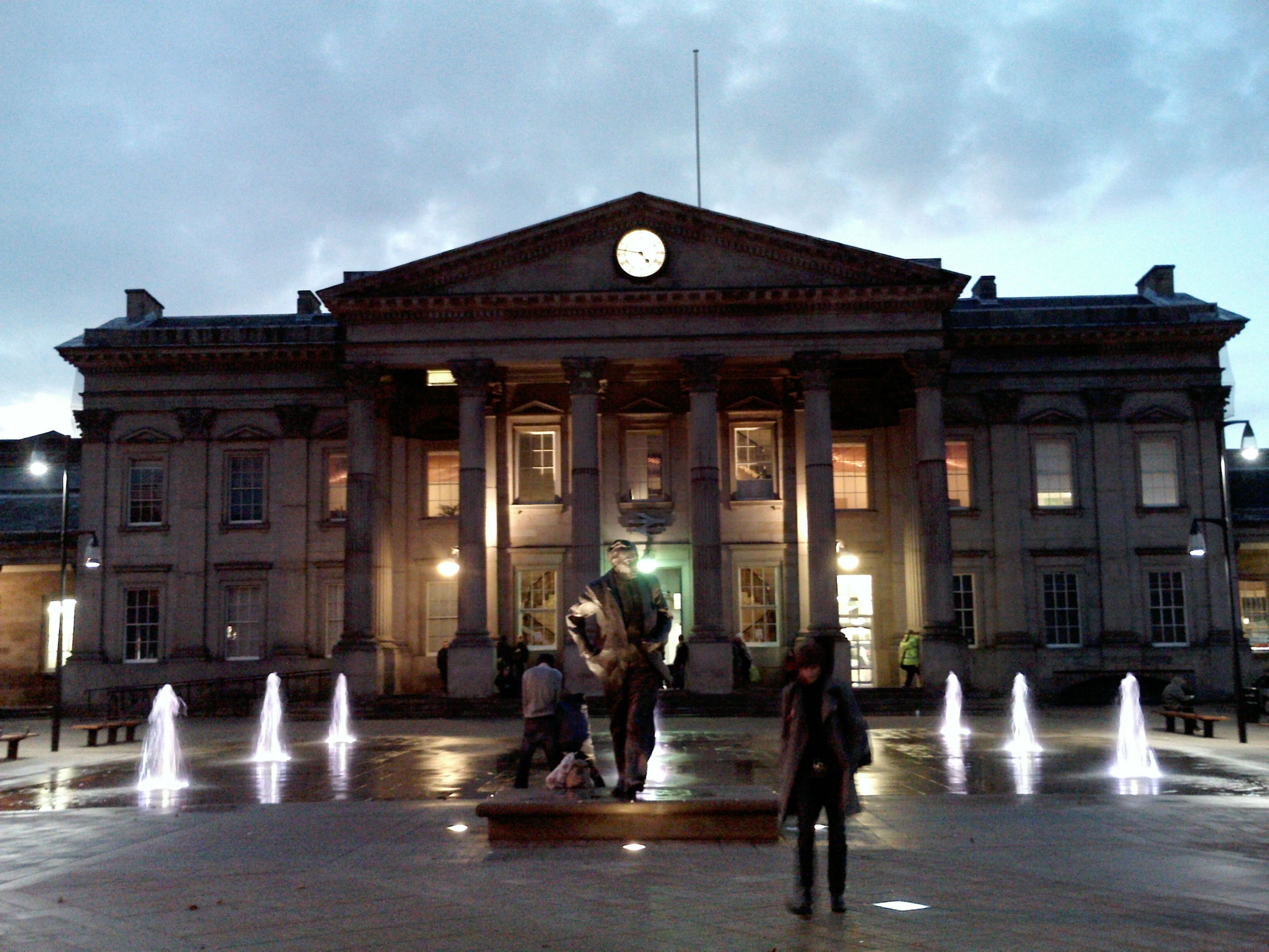 Huddersfield railway station from St George's Square at night. Taken in November 2009.